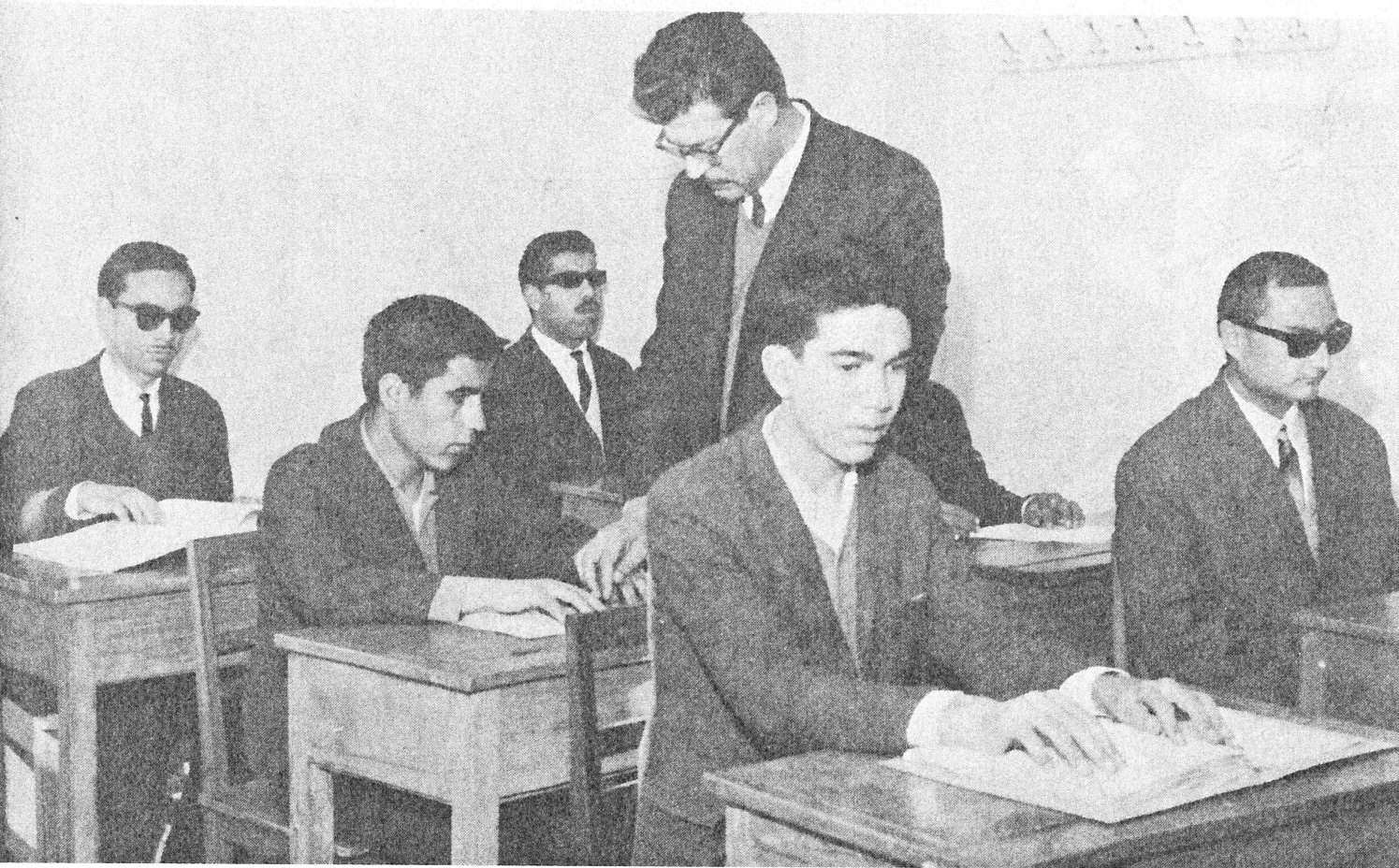 Reza Pahlavi School for the blind, Tehran